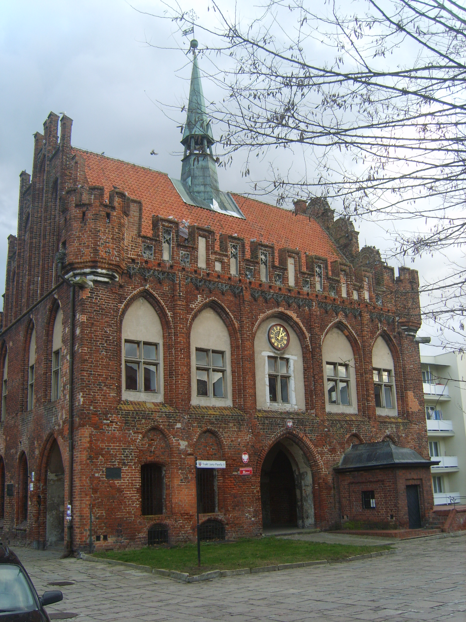 Cityhall in Malbork